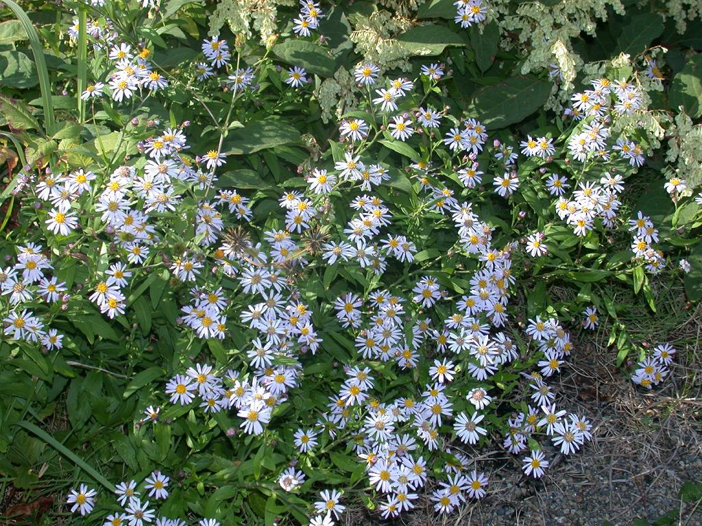 Name Aster ageratoides subsp. ovatus （ノコンギク） Family Asteraceae Date;2006,10;Hiki,Sirahama town, Wakayama prefecture, Japan Author;Keisotyo